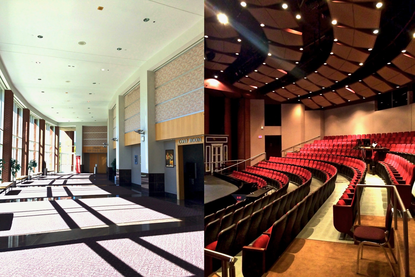 (Left) Entrance of the Pealer Recital Hall. (Right) Inside the exquisite 458-seat proscenium-style music hall.